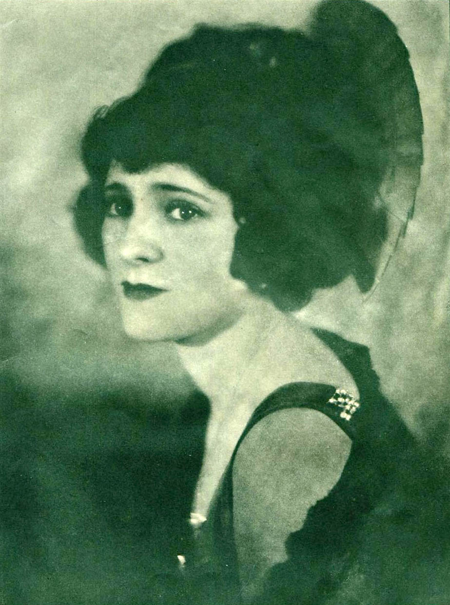 Edith Roberts in Filmplay Journal, January 1922